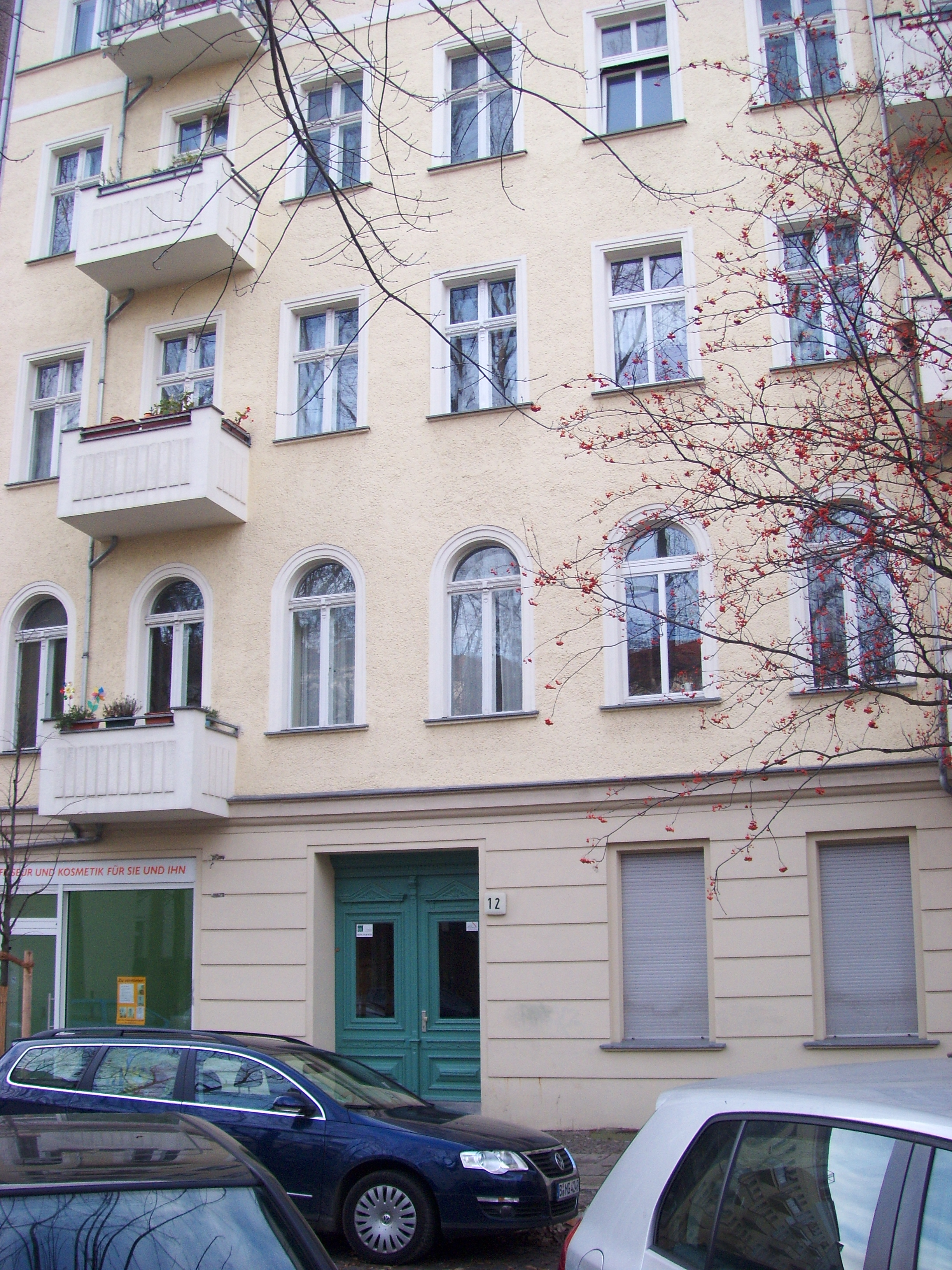 Pintschstrasse 12, 10249 Berlin-Friedrichshain, taken 30 November 2009.